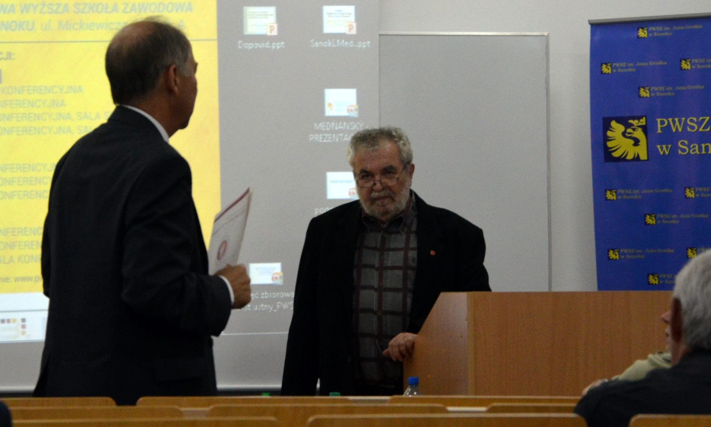 Walter Żelazny